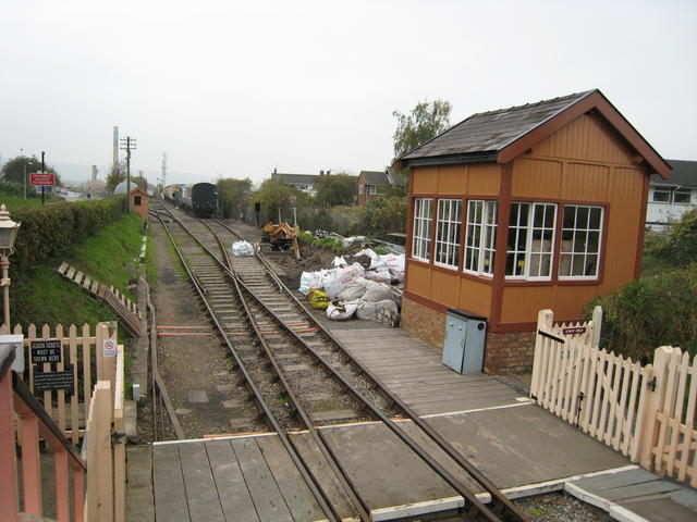 he run round loop and sidings of the Chinnor & Princes Risborough Railway. The line used to continue to Farringdon but latterly only survived to serve the now defunct cement works just out of the picture to the left. It is now operated as a heritage railway.